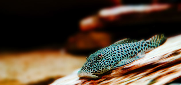 A pleco, representative of Chaetostoma species.